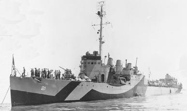 The U.S. Navy light minelayer USS Sicard (DM-21), circa in 1944.